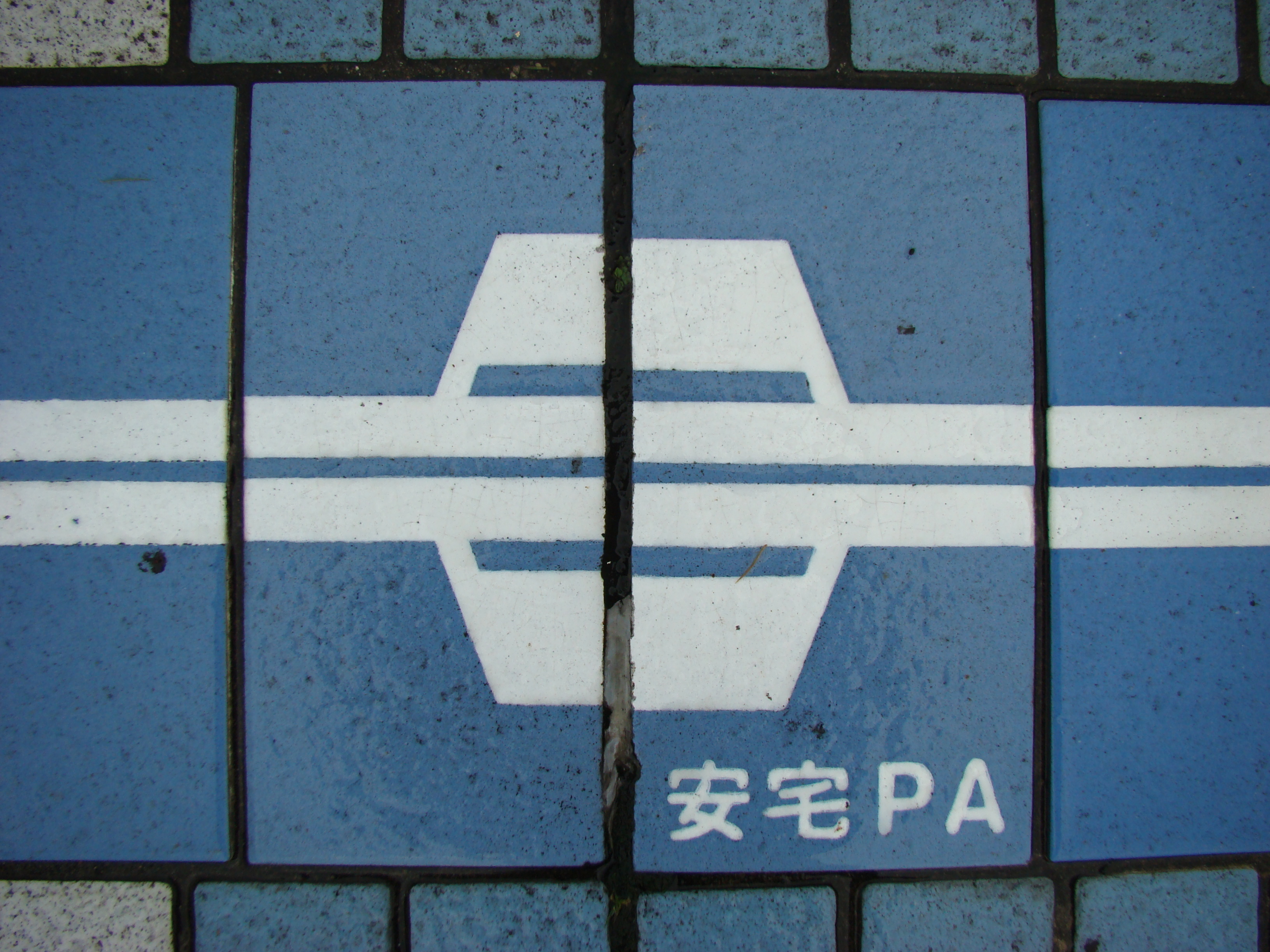 The tile which designed a shape of the Ataka Parking Area（Hokuriku Expressway）（There is this tile in Hokuriku Expressway Nadachi-Tanihama Service Area.）. Place - Chayagahara,Joetsu City,Niigata Prefecture,Japan Date - August 9, 2009 Format - JPEG, 3264x2448pixel, 24bit colors. Photographer - NALA Wiki (talk)